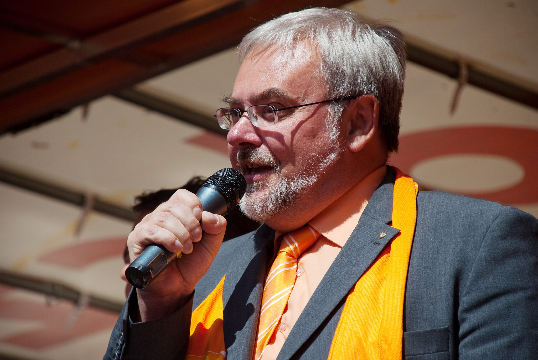 Jiri Havel 27. 5. 2009 at political meeting.